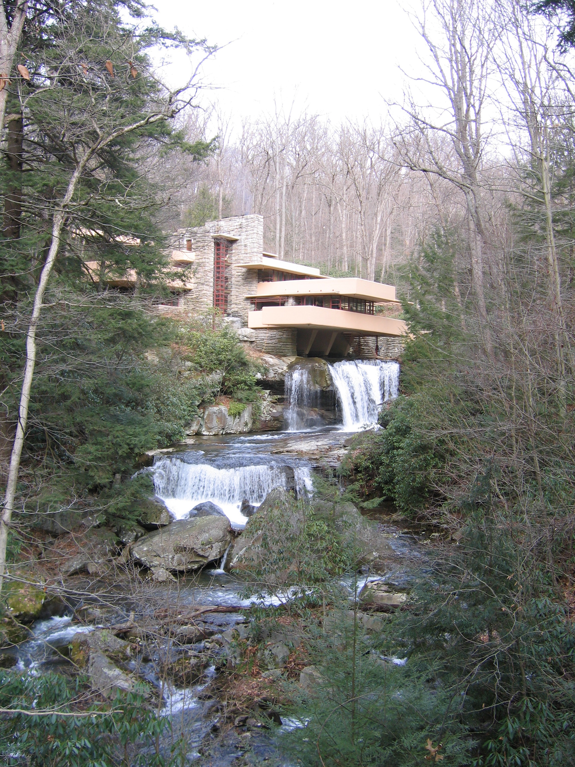 Exterior view of Fallingwater